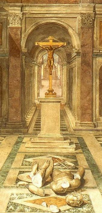 Tommaso Laureti (1530 - 1602): Triumph of Christianity. Sala di Costantino, Vatican Palace.